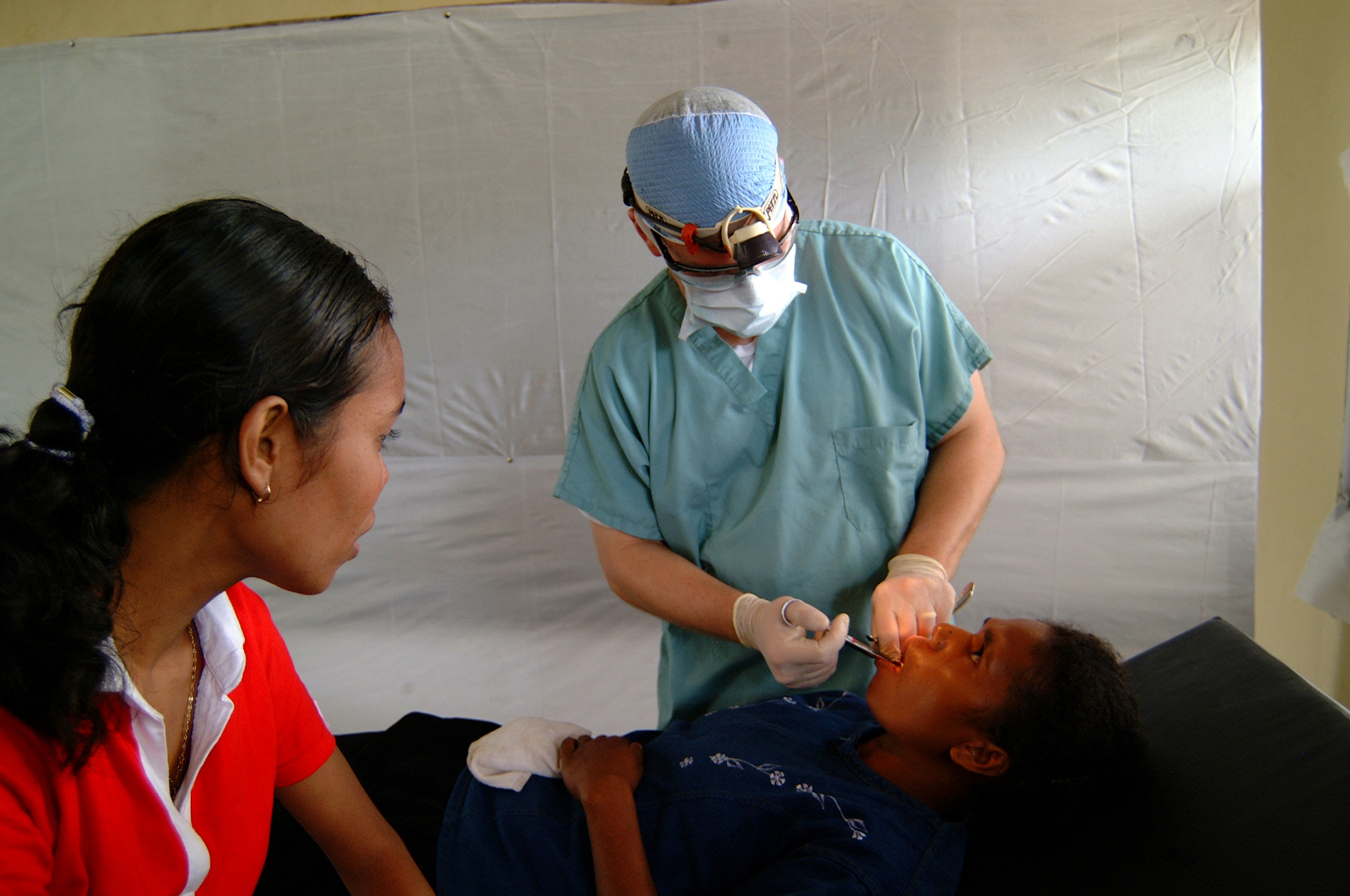 Alor, Indonesia (Mar. 26, 2005) - Cmdr. Mark Roback, a Navy dentist from the Military Sealift Command (MSC) hospital ship USNS Mercy (T-AH 19), speaking to his patient through an interpreter, tells her that the injection he is giving her will numb the area around her decaying tooth before he extracts it. Mercy is currently off the coast of Alor, Indonesia to provide humanitarian assistance and focus medical care to thousands of people displaced by a magnitude 7.3 earthquake that struck Nov. 11, 2004. While ashore, Mercy's crew will focus on public health, primary care, dental treatment, preventive medicine, health education and pharmaceutical support. Mercy's deployment is part of the U.S. commitment to Southeast Asia and the Pacific Island nations. U.S. Navy photo by Journalist 1st Class Joshua Smith (RELEASED)